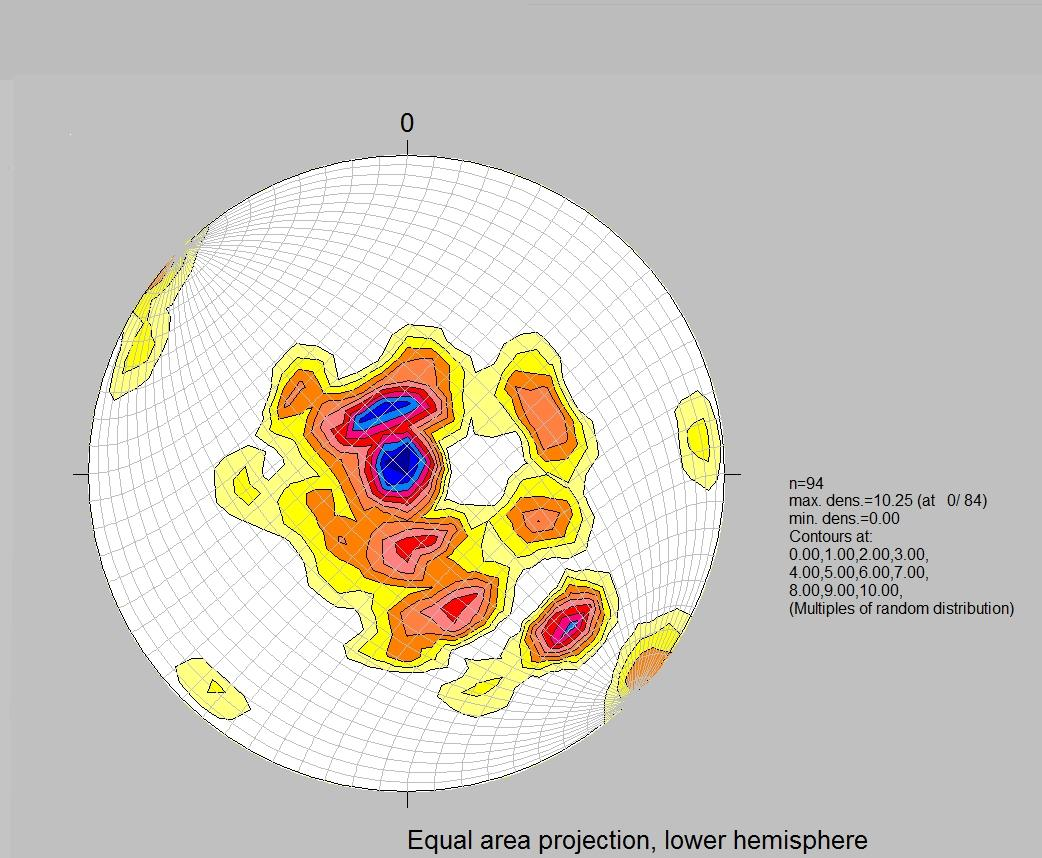 Stereographic projection of foliation data from the Saint-Mathieu leucogranite. Stereonet courtesy Johannes Duyster.